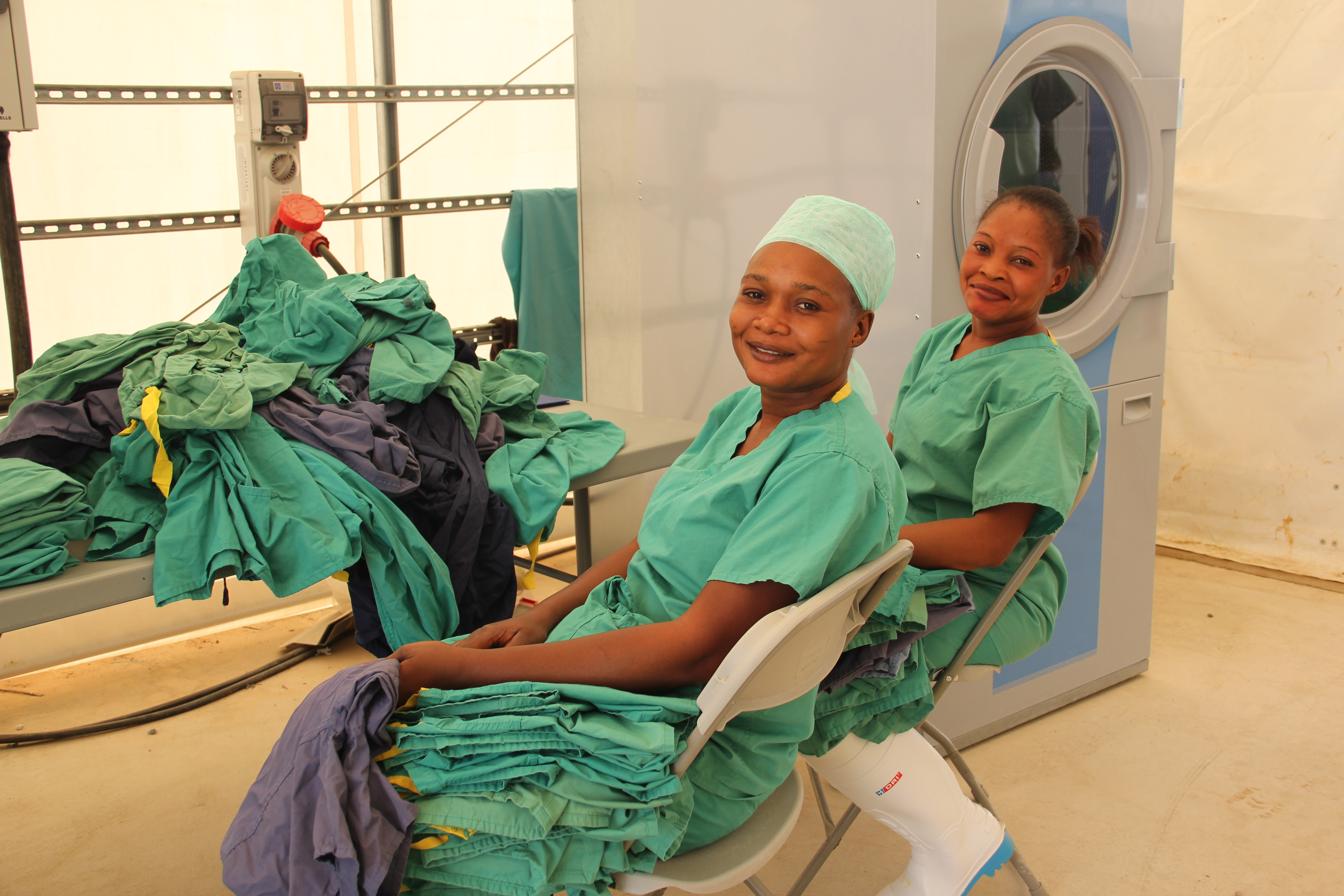 Isatu Jalloh and Adama Samura are just two of the hidden heroes helping to beat the disease at the Makeni Ebola treatment centre - run by International Medical Corps and supported by UK aid. They keep on top of the laundry, washing nurses' and doctors' scrubs so that they in turn can keep focussed on the life-saving medical care. Meet more of the hidden heroes helping to defeat the disease in Sierra Leone at: bit.ly/ebolaheroes Picture: Jessica Seldon/DFID Free-to-use photo This image is posted under a Creative Commons - Attribution Licence, in accordance with the Open Government Licence. You are free to embed, download or otherwise re-use it, as long as you credit the source as 'Jessica Seldon/DFID'.